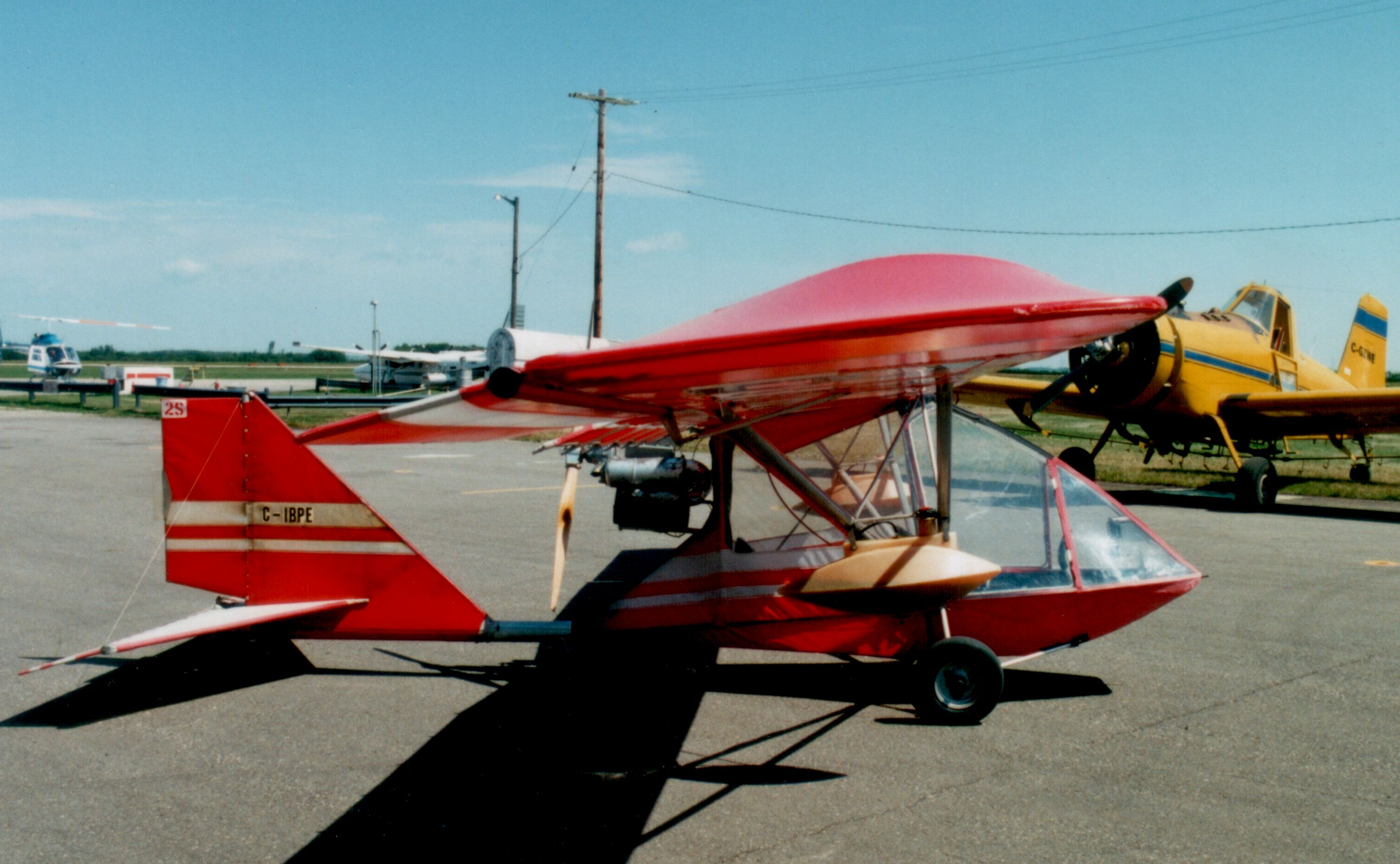 Birdman Chinook 2S at Brandon, Manitoba, Canada